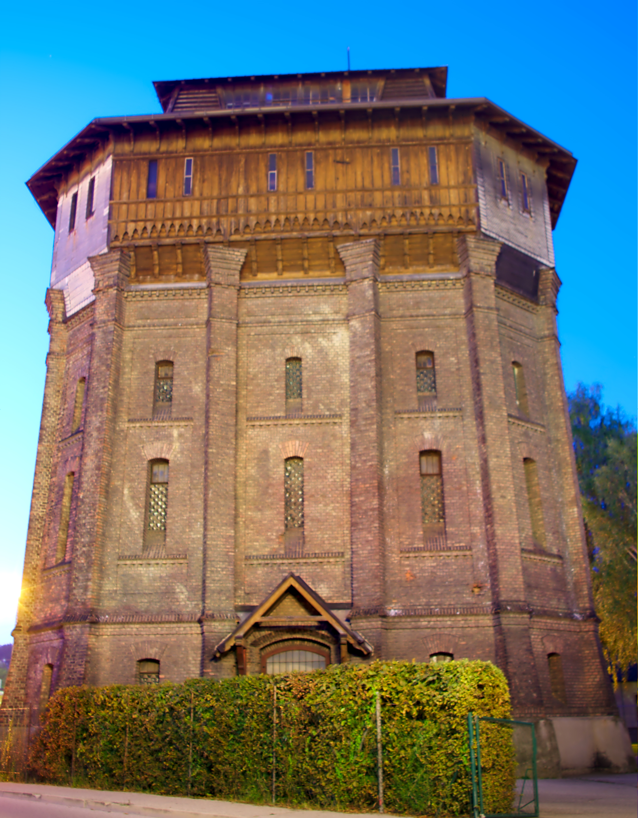 The Water tower with 4 floors as brick work which was built in 1908 as part of the extension of the railway station. The Water tower is placed directly beside the station.